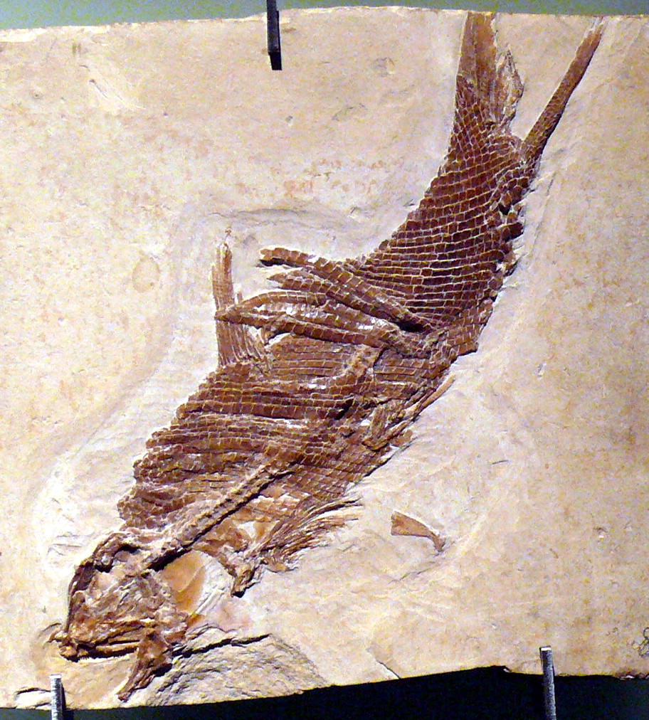 Ophiopsis procera AGASSIS, 1834 from Solhofen, Germany, Upper Jurassic